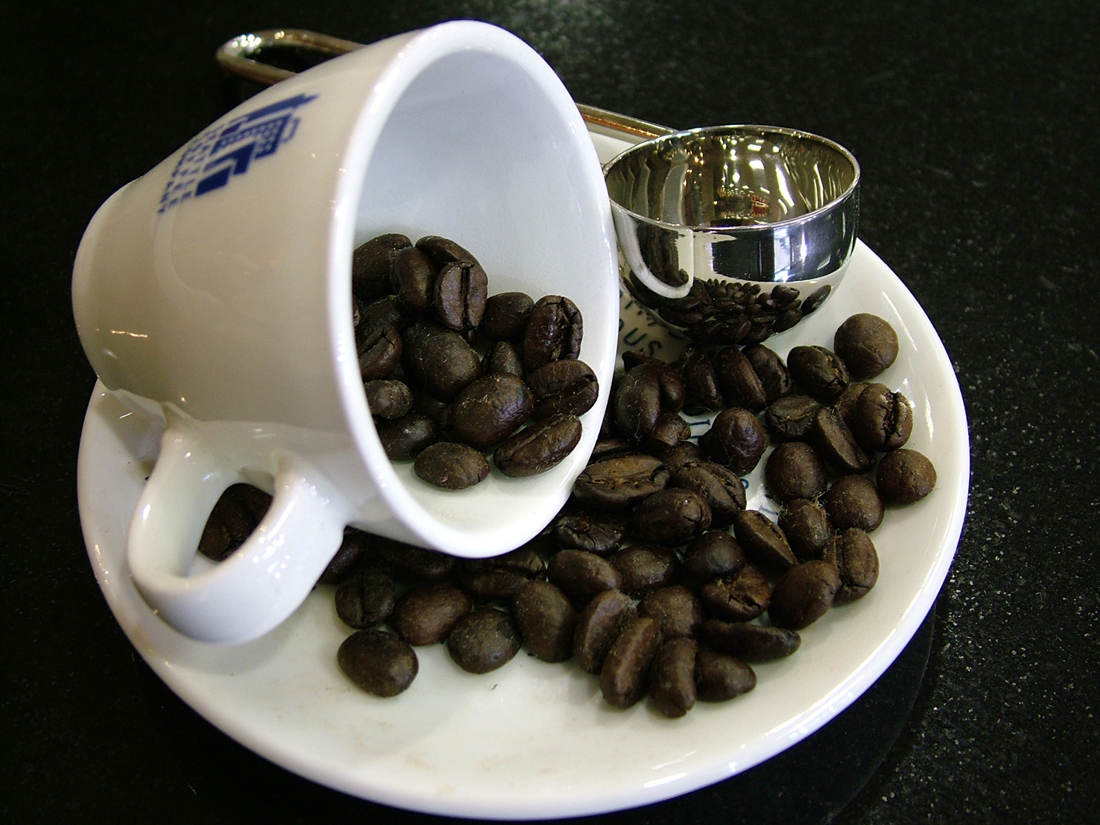 A fallen coffee cup with beans pouring out.